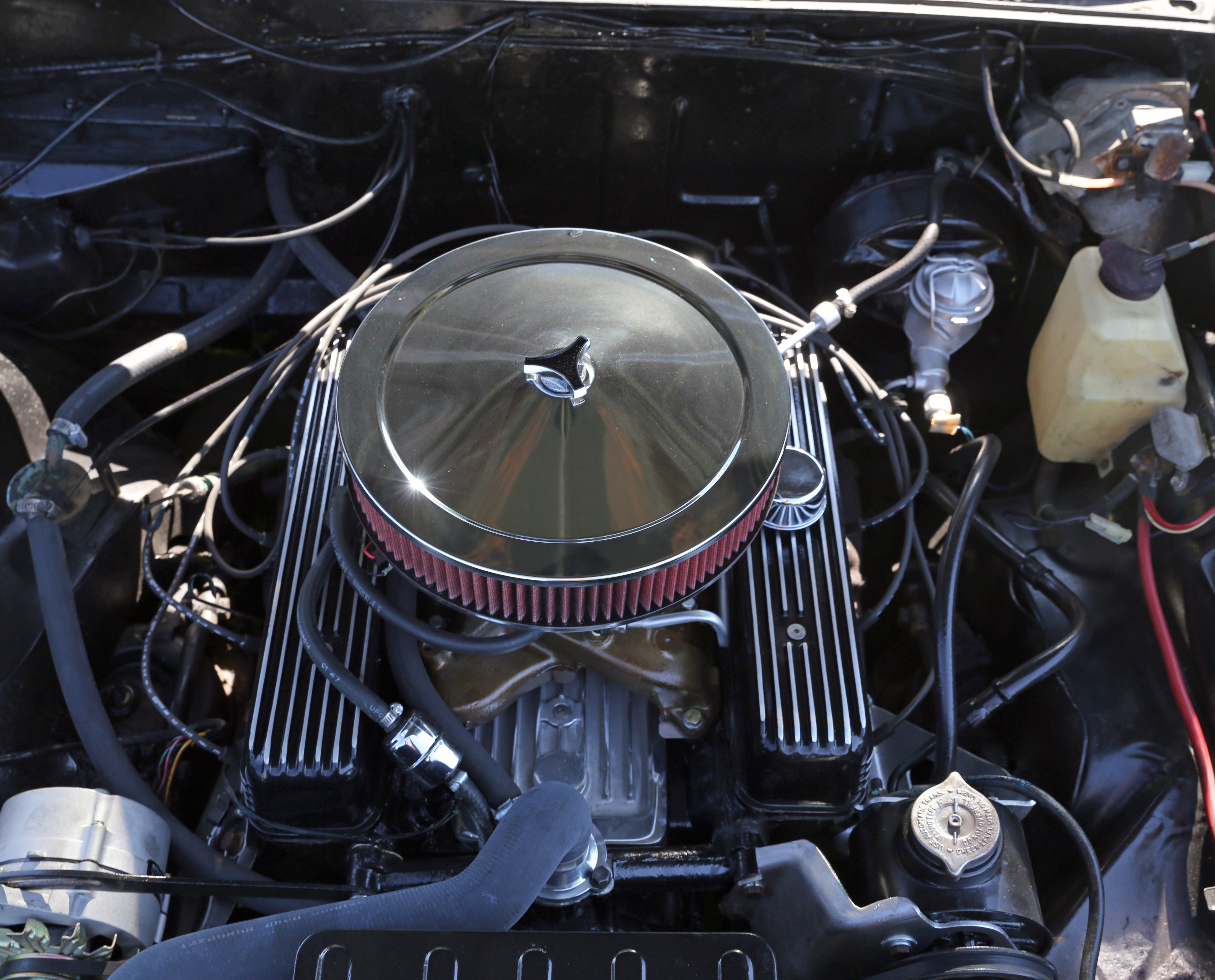 The 401 ci "Nailhead" V8 in a 1963 Buick LeSabre. Sadly a non-standard seeming air cleaner.